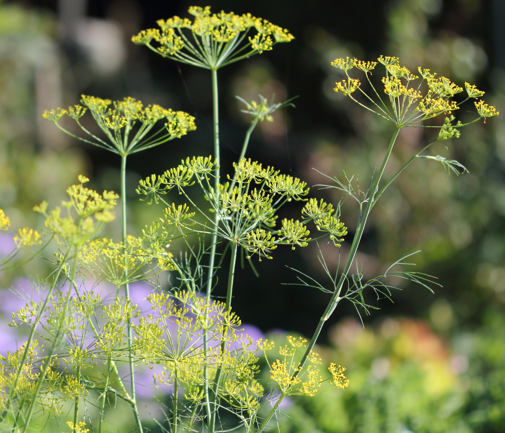 dill, habitus